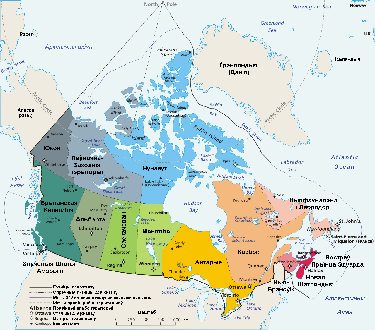 Map: Canada – geopolitical Drawn and adapted by E Pluribus Anthony from Atlas of Canada Edited by User:Heqs/User:Cogito ergo sumo to show disputed nature of Canada's marine international boundary claims; see Canada-United_States_border#Remaining_boundary_disputes; further edited by Bosonic dressing to reflect agreed maritime boundary between Canada and Greenland/Denmark